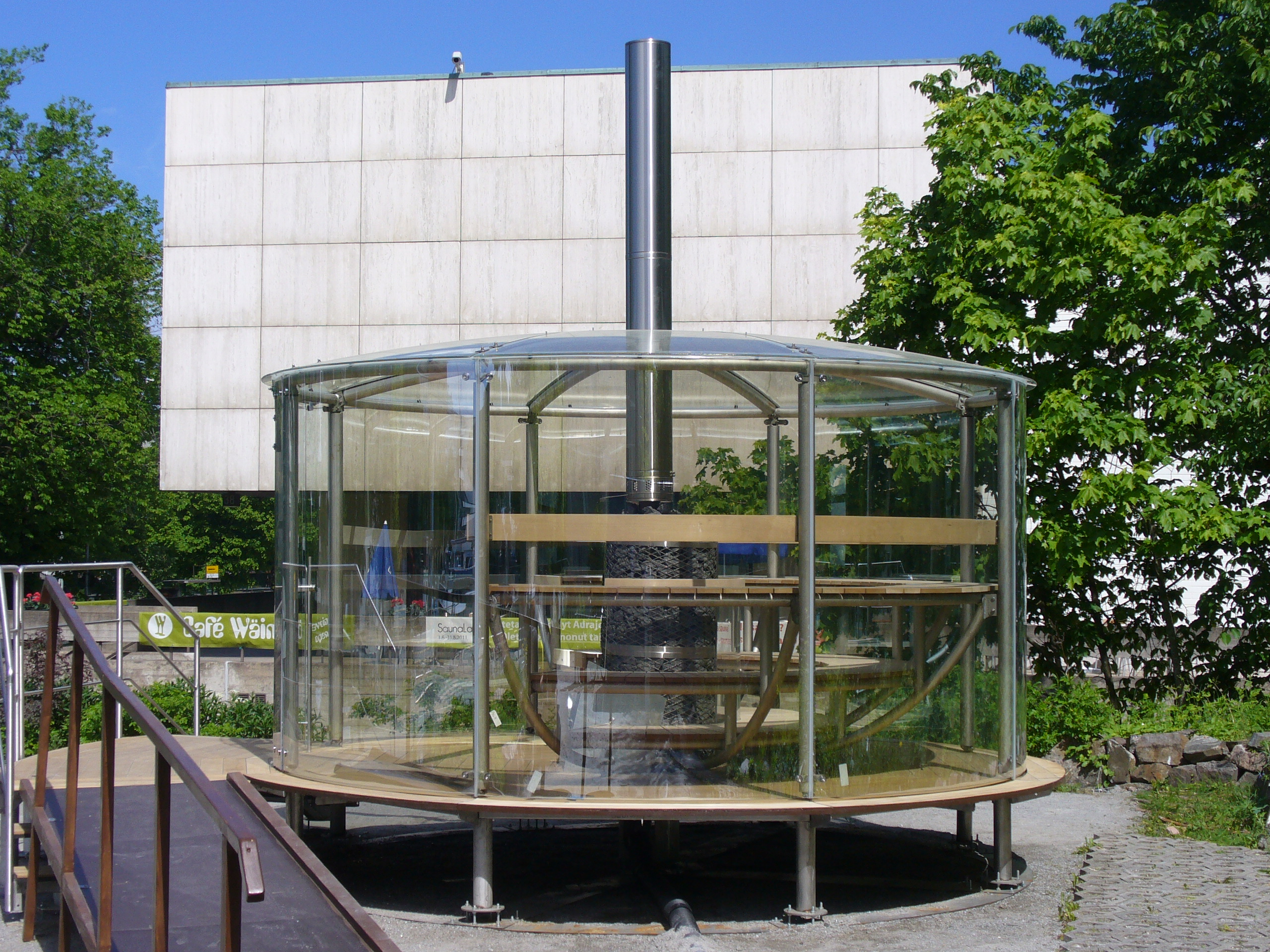 Sauna Solaris in Turku.